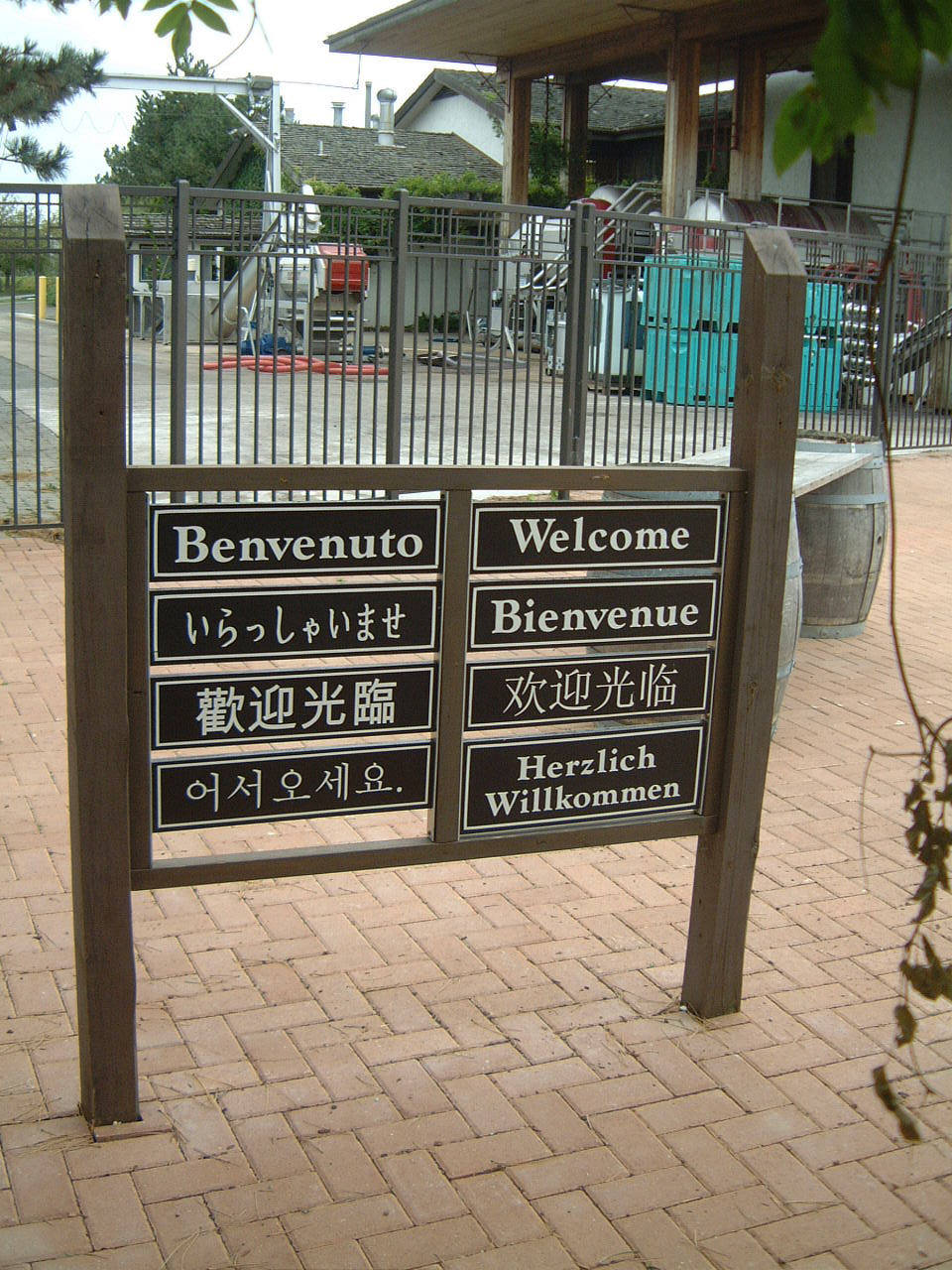 Welcome sign at Inniskillin vineyard, Niagara-on-the-Lake, Ontario, Canada.